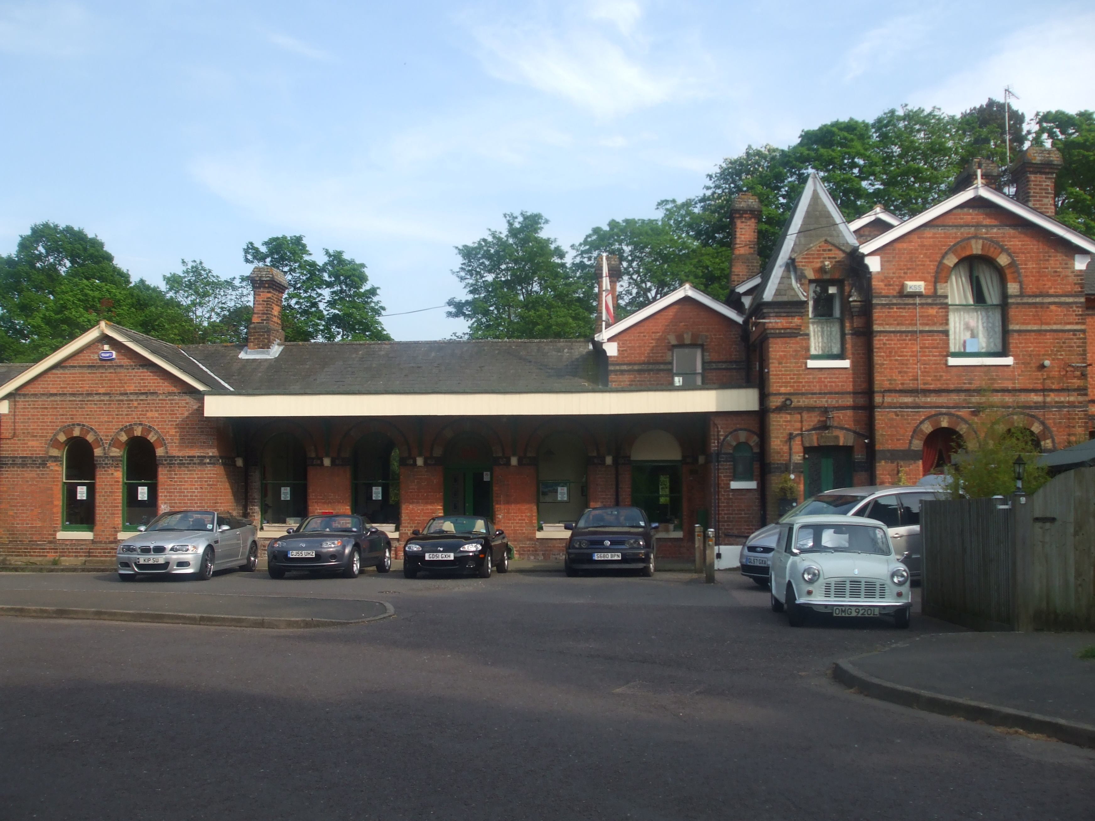 Groombridge Railway Station, Kent